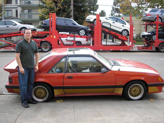 A picture of me in front of car to show examply of past saleen models